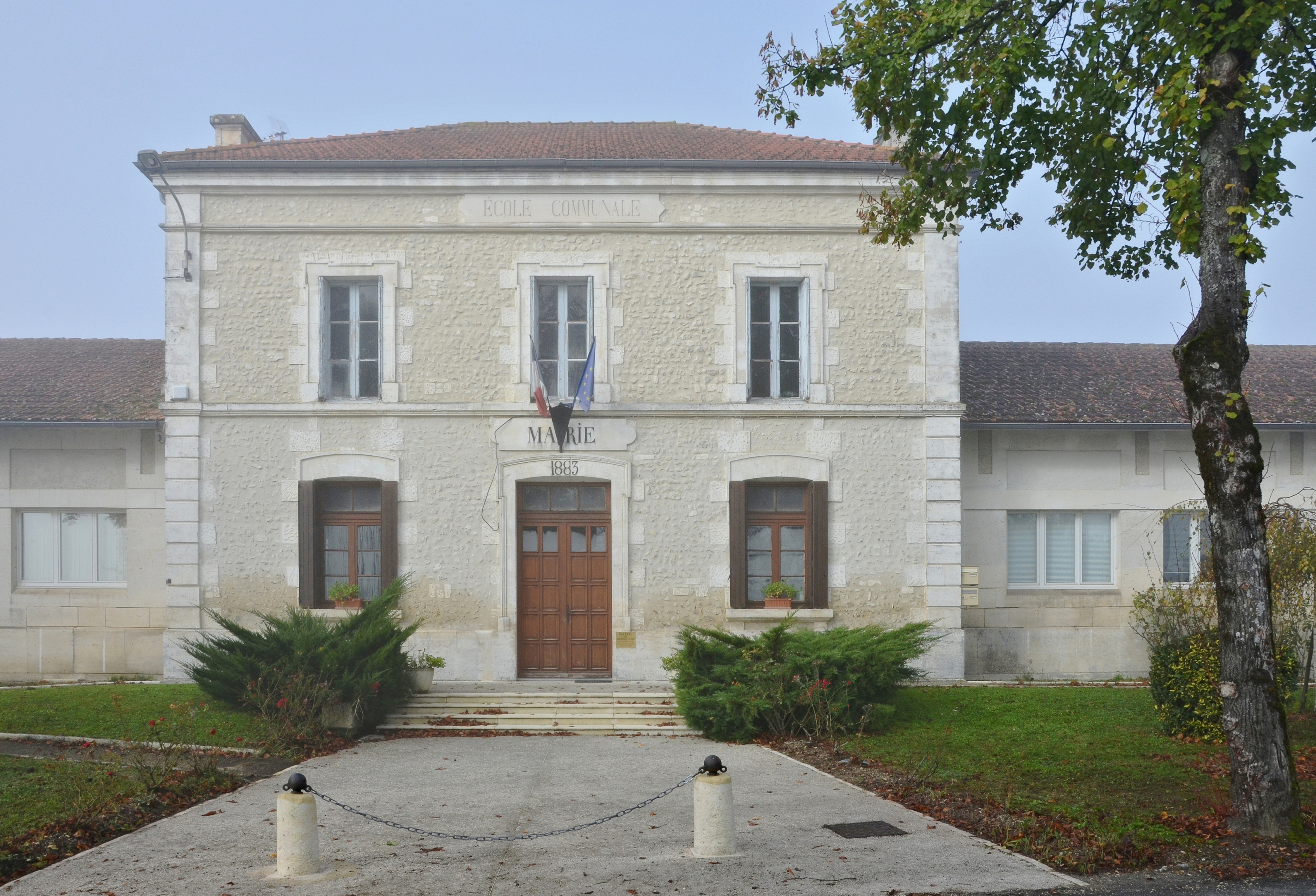 City hall of Montignac-le-Coq, Charente, France.